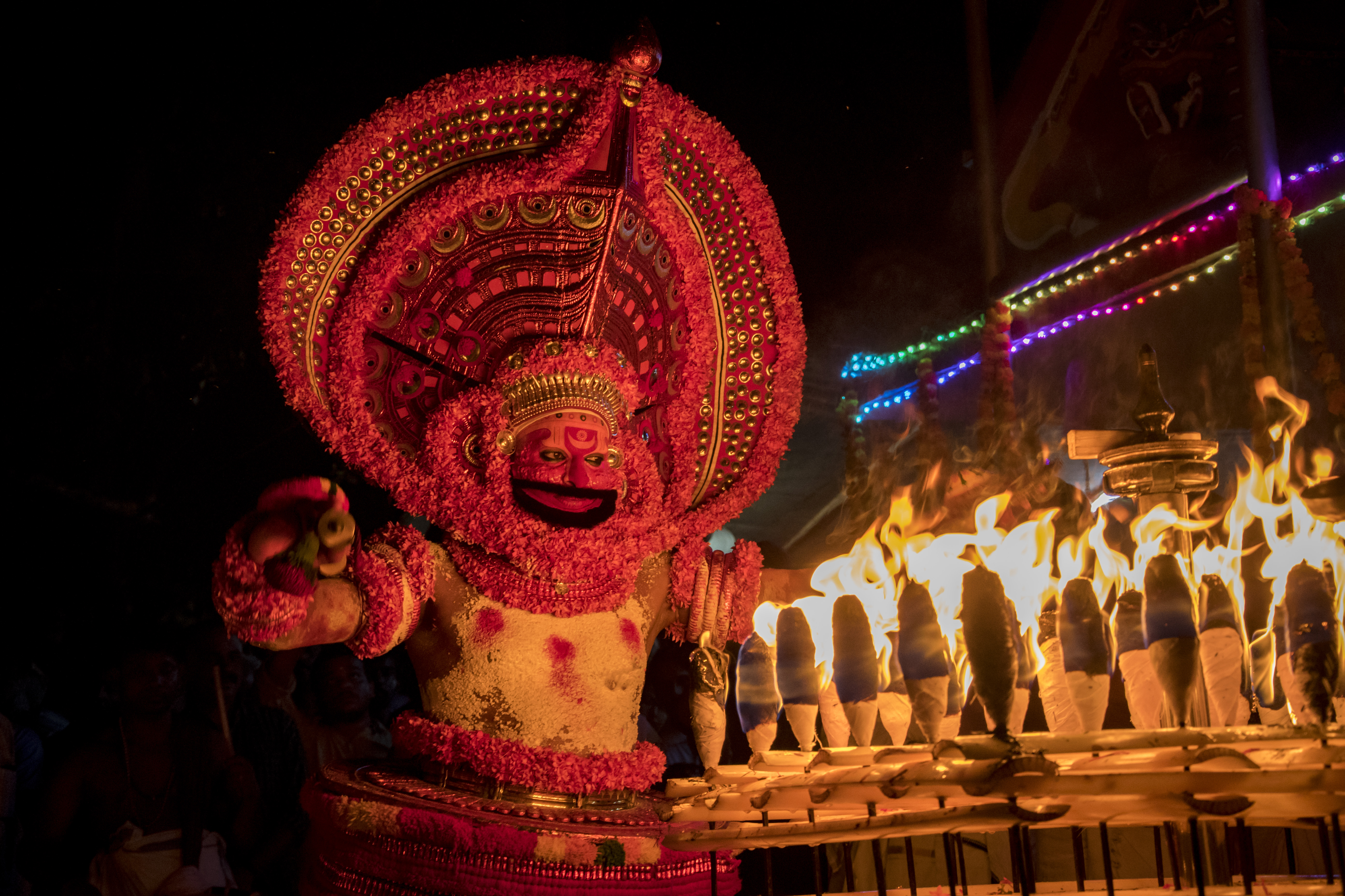 Theyyam is a popular ritual form of worship of North Malabar in Kerala